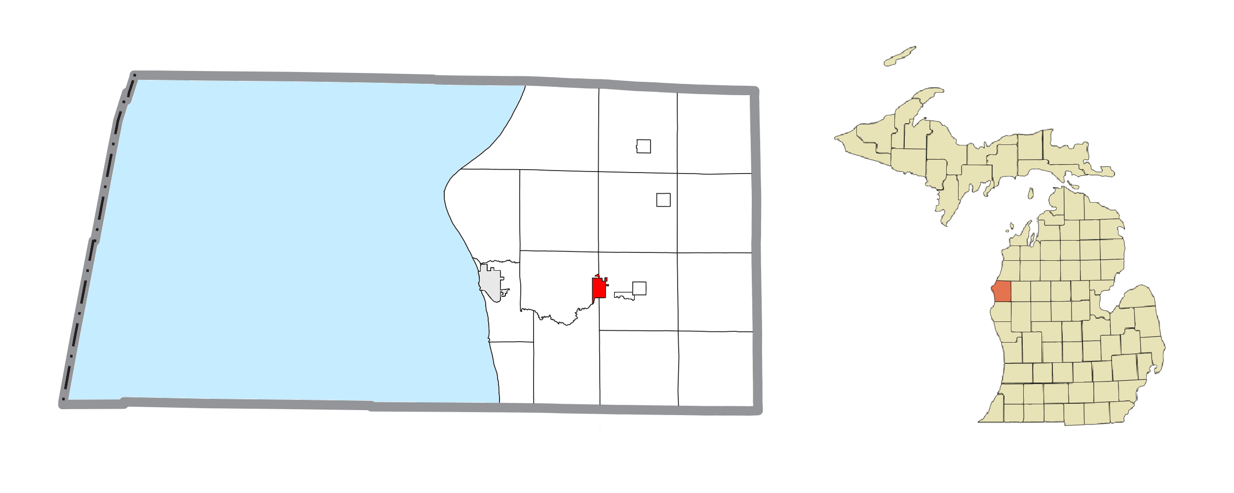 Scottsville, MI